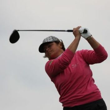 Mette Hageman winning the Dutch PGA Championship